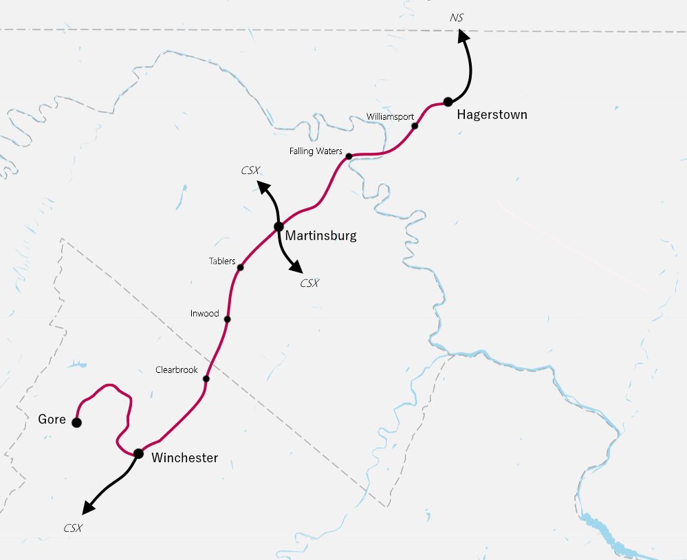 Map of the Virginia division with all of the stops along the WW tracks